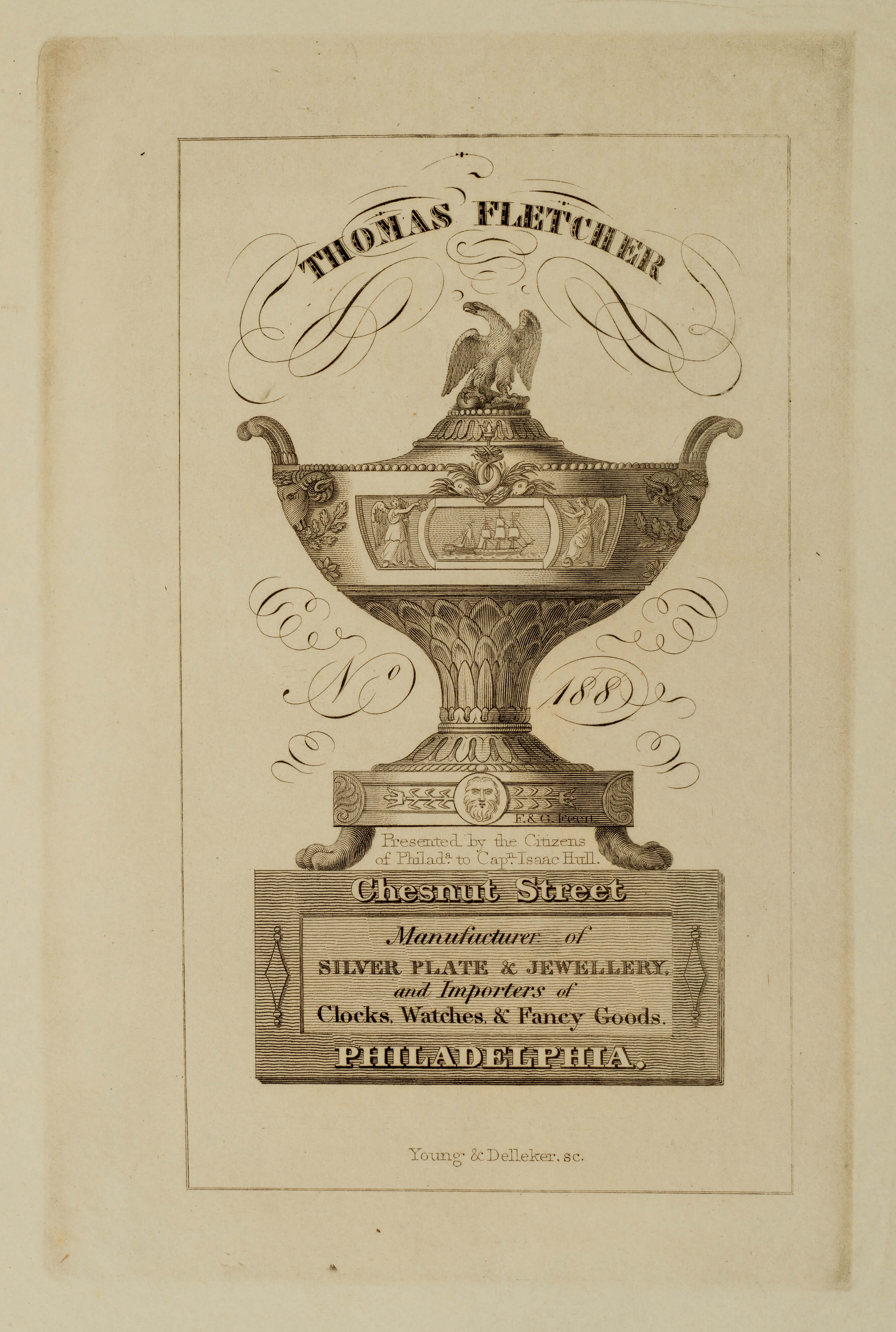 Urn by Thomas Fletcher, commemorating the battle between the USS Constitution and Guerriere. An advertisement for Fletcher's company, created and published c. 1812.